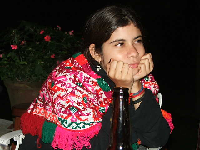 Quezquémetl (Mexican shawl-like garment) from the Huasteca Potosina (because of the colors)